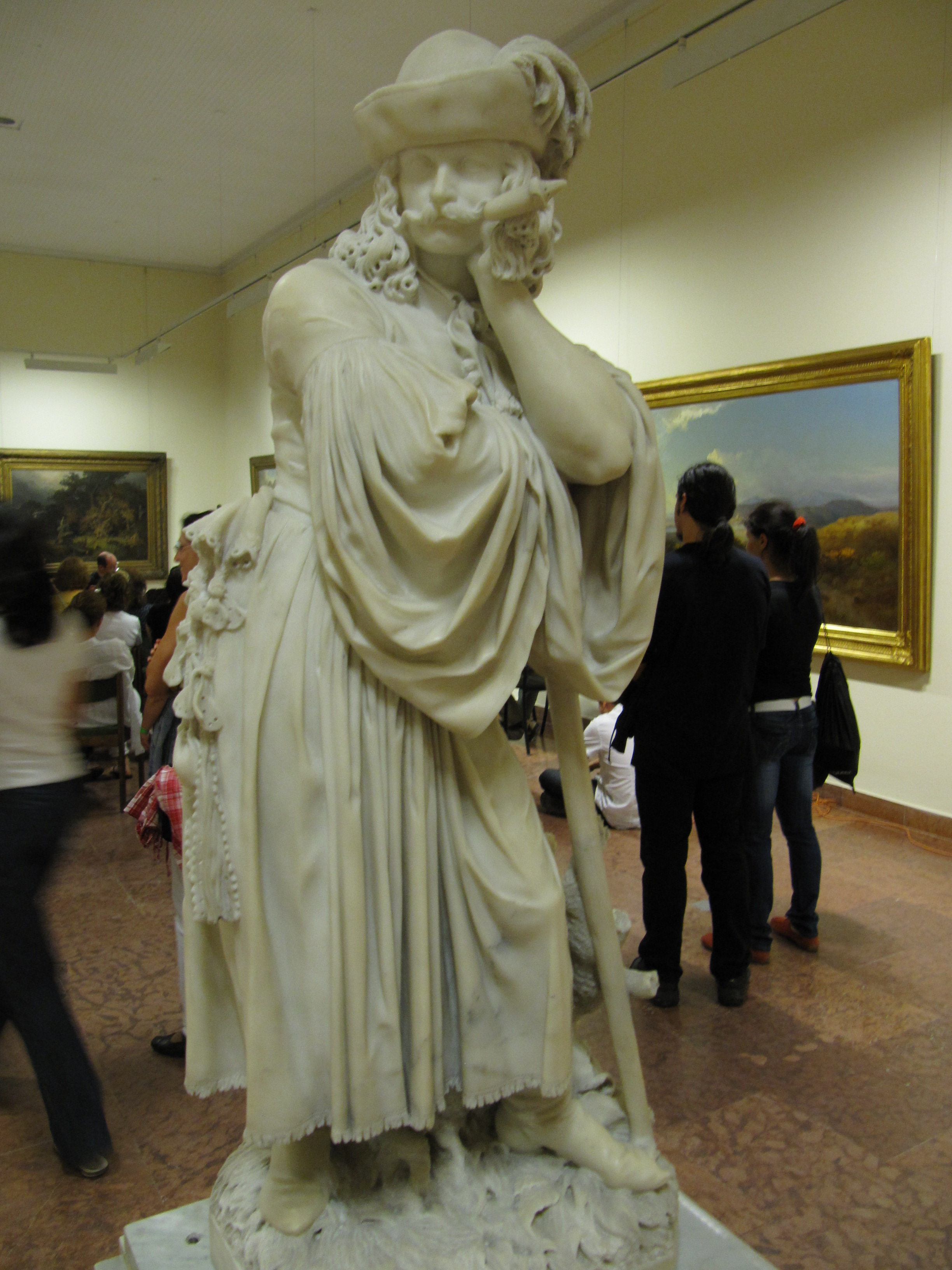 Miklós Izsó's "Búsuló Juhász" ("Grieving Shephard") (1862) in the Hungarian National Gallery.